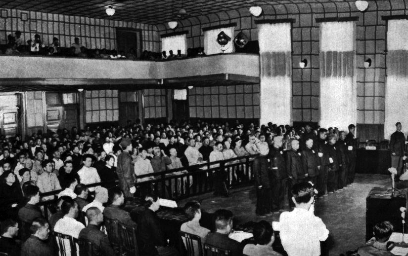 Military commission of PRC's people's court judging eight Japanese invaders, including Suzuki Hiraku, in Shenyang.